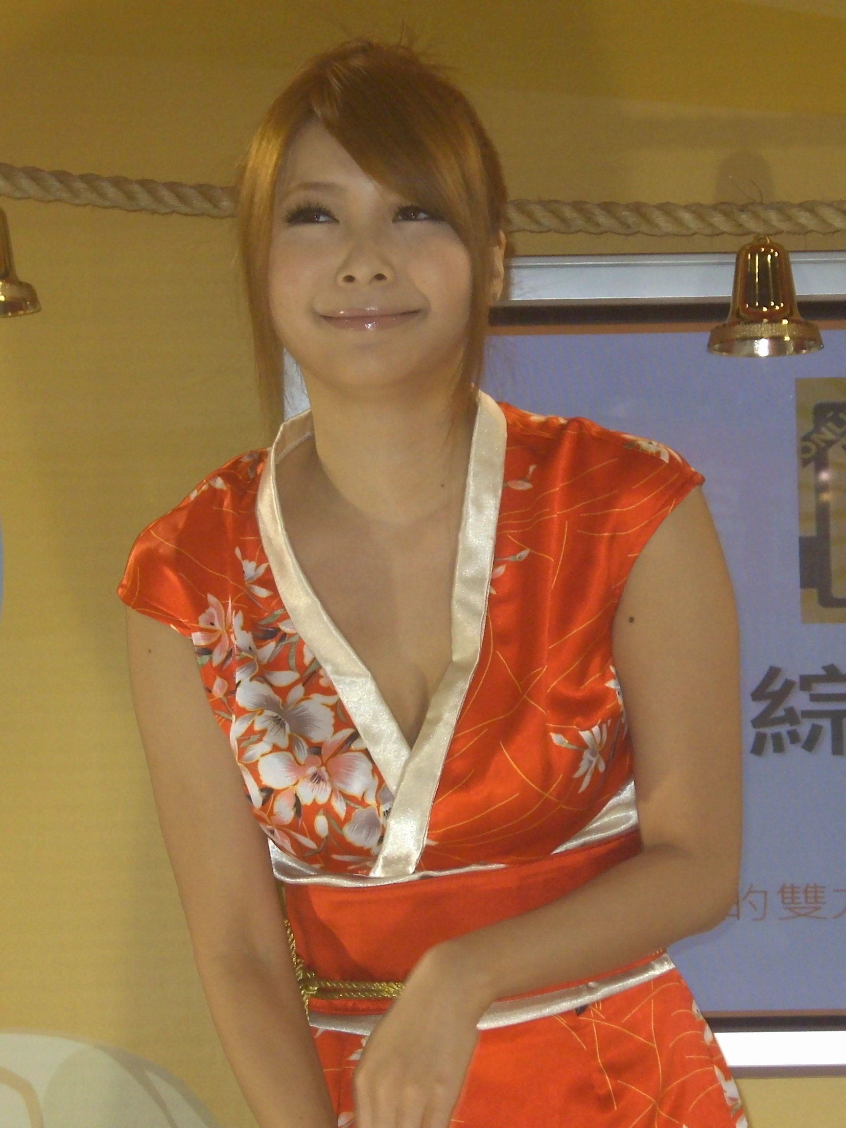 2010 Taipei Game Show: Makiyo Kawashima.